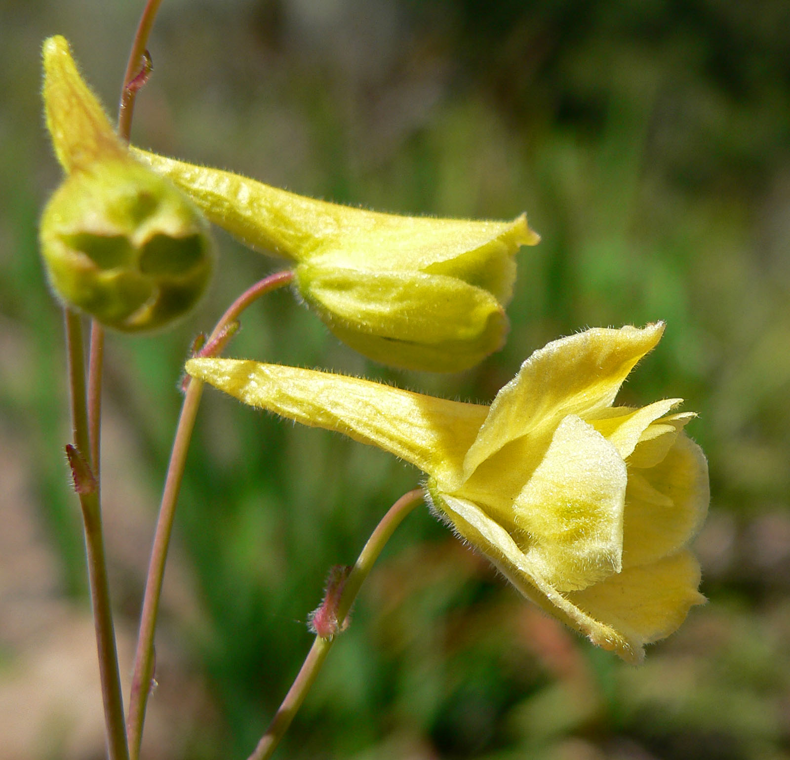 Photo of Delphinium luteum at the Regional Parks Botanic Garden, Berkeley, California